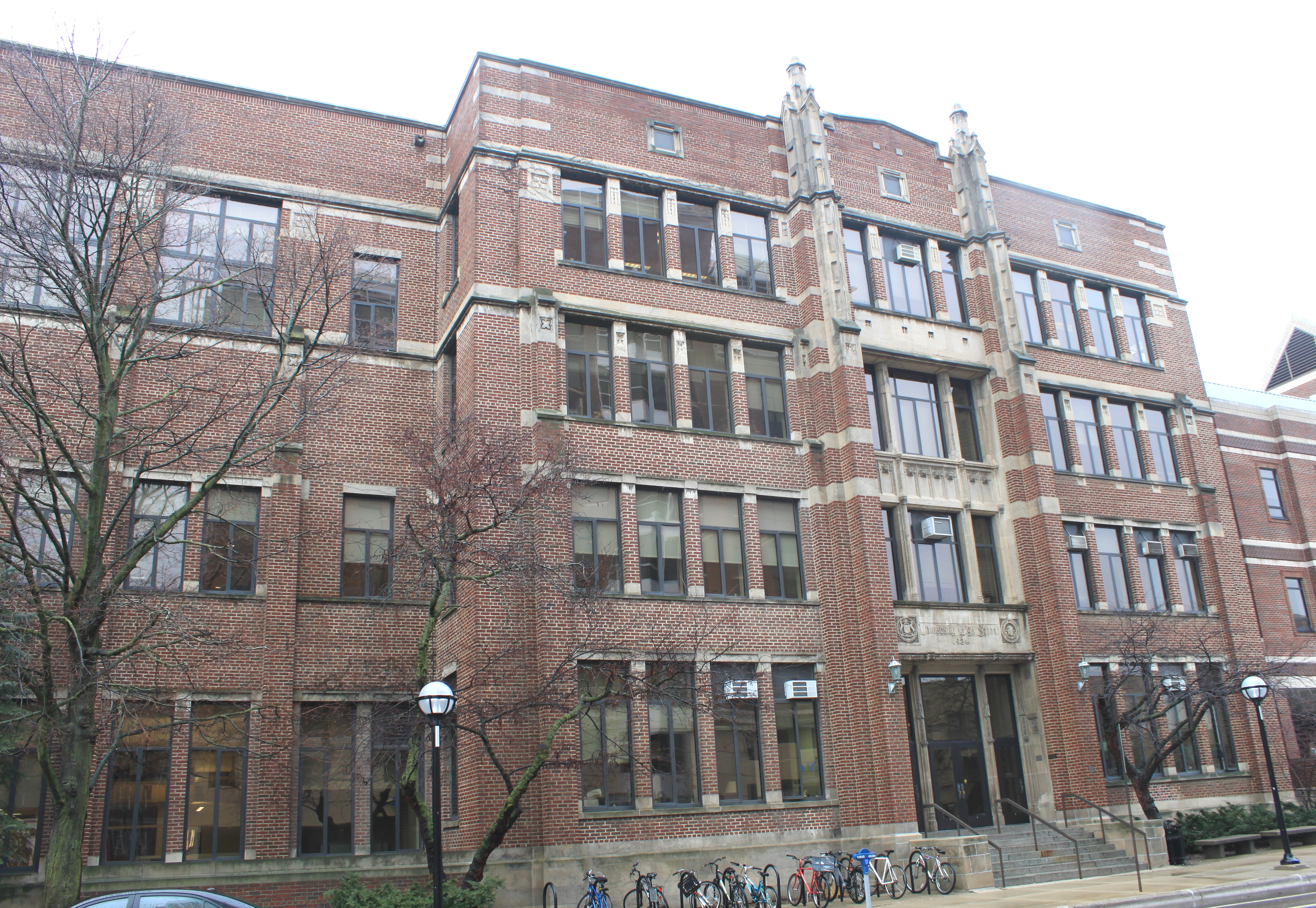 School of Education Building, University of Michigan, 601 East Unviersity Avenue, Ann Arbor, Michigan.